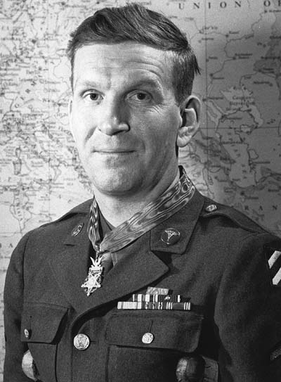 Lloyd C. Hawks, Private First Class, United States Army, awarded the Medal of Honor for actions in World War II